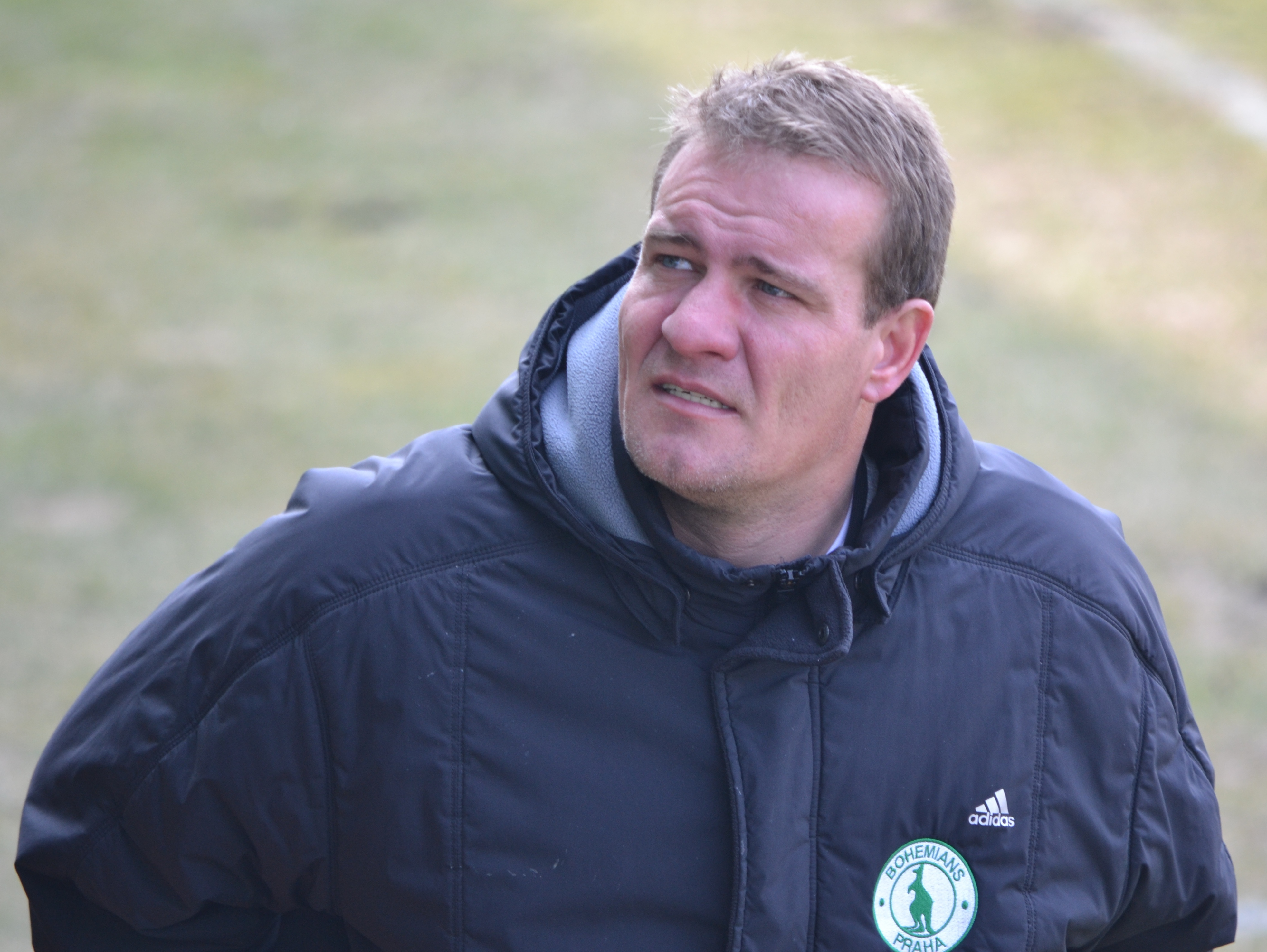 Oldřich Pařízek, Czech football goalkeeper and coach